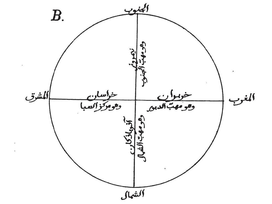 The Remaining Signs of Past Centuries (Arabic: الآثار الباقية عن القرون الخالية, Kitāb al-āthār al-bāqiyah `an al-qurūn al-khāliyah) by Abū Rayhān al-Bīrūnī, P vii